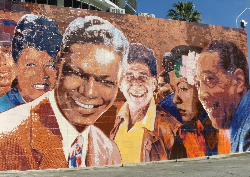 "Entitled "Hollywood Jazz: 1945-1972" at Capitol Records, Los Angeles, CA. Restored in hand-glazed ceramic tile, the mural is 26ft. by 88ft. This masterpiece entails “larger than life” images of: Chet Baker, Gerry Mulligan, Charlie “Bird” Parker, Tito Puente, Miles Davis, Ella Fitzgerald, Nat King Cole, Shelly Manne, Dizzy Gillespie, Billie Holiday, and Duke Ellington.